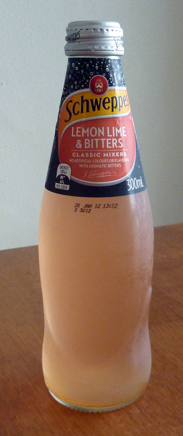 Lemon, Lime and Bitters